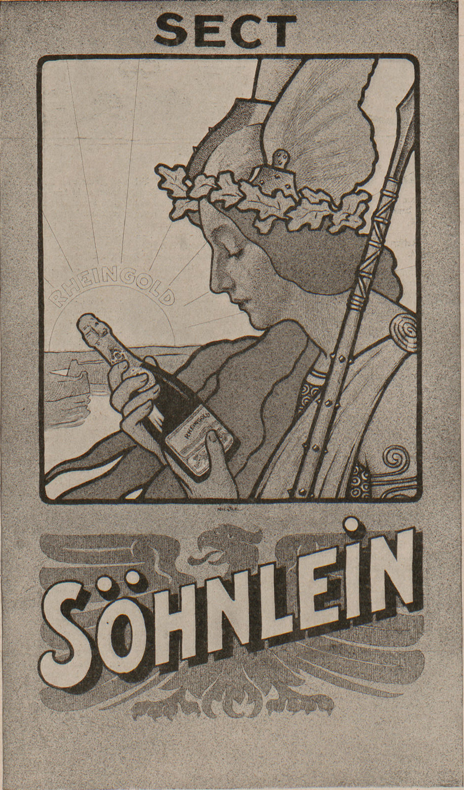 A 1901 advertisement for Söhnlein's "Rheingold" sekt, featuring a valkyrie.